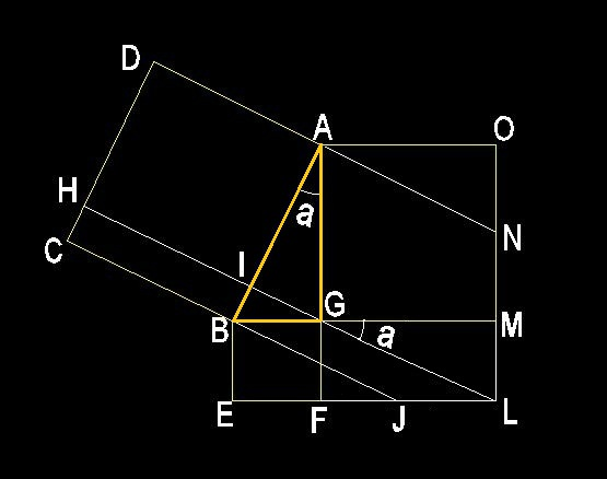 Euclid's Demonstration of the Pythagorean Theorem